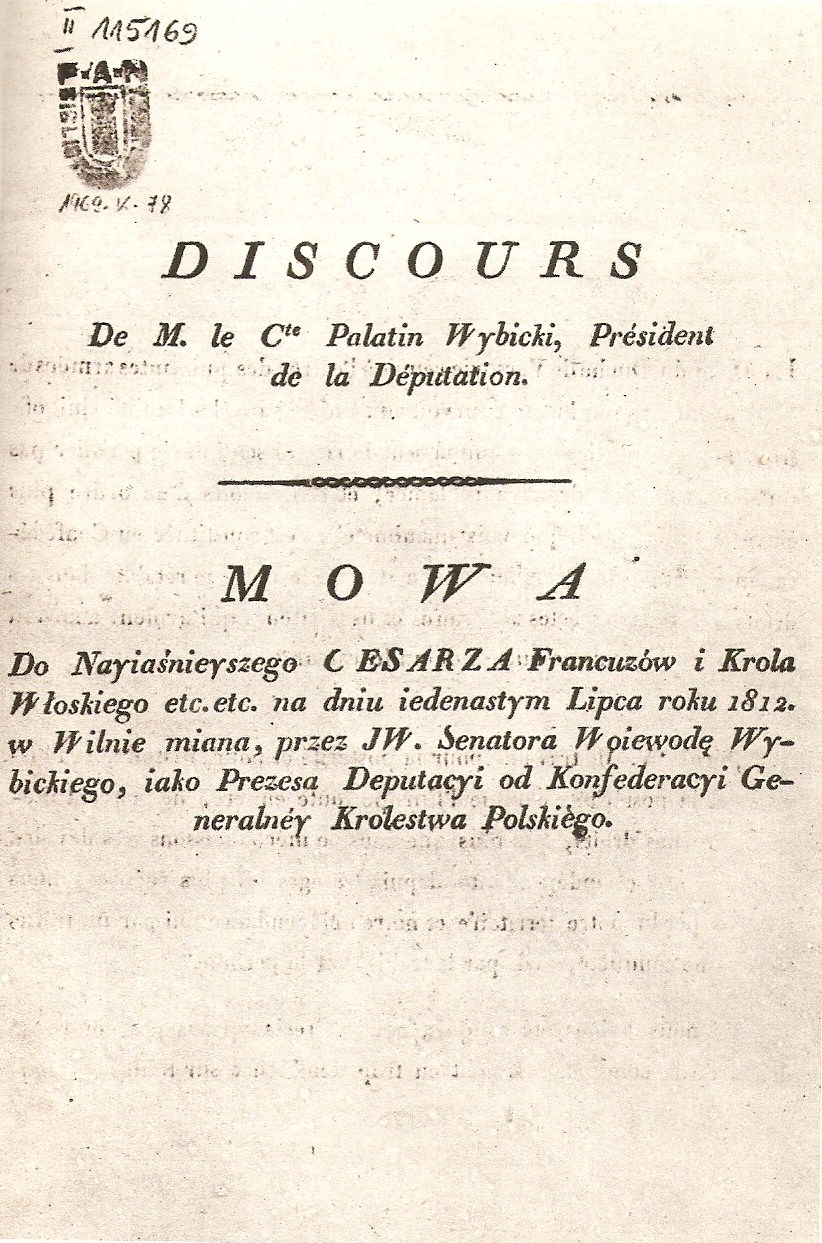 Józef Wybicki, address to Emperor Nepoleon (1812)